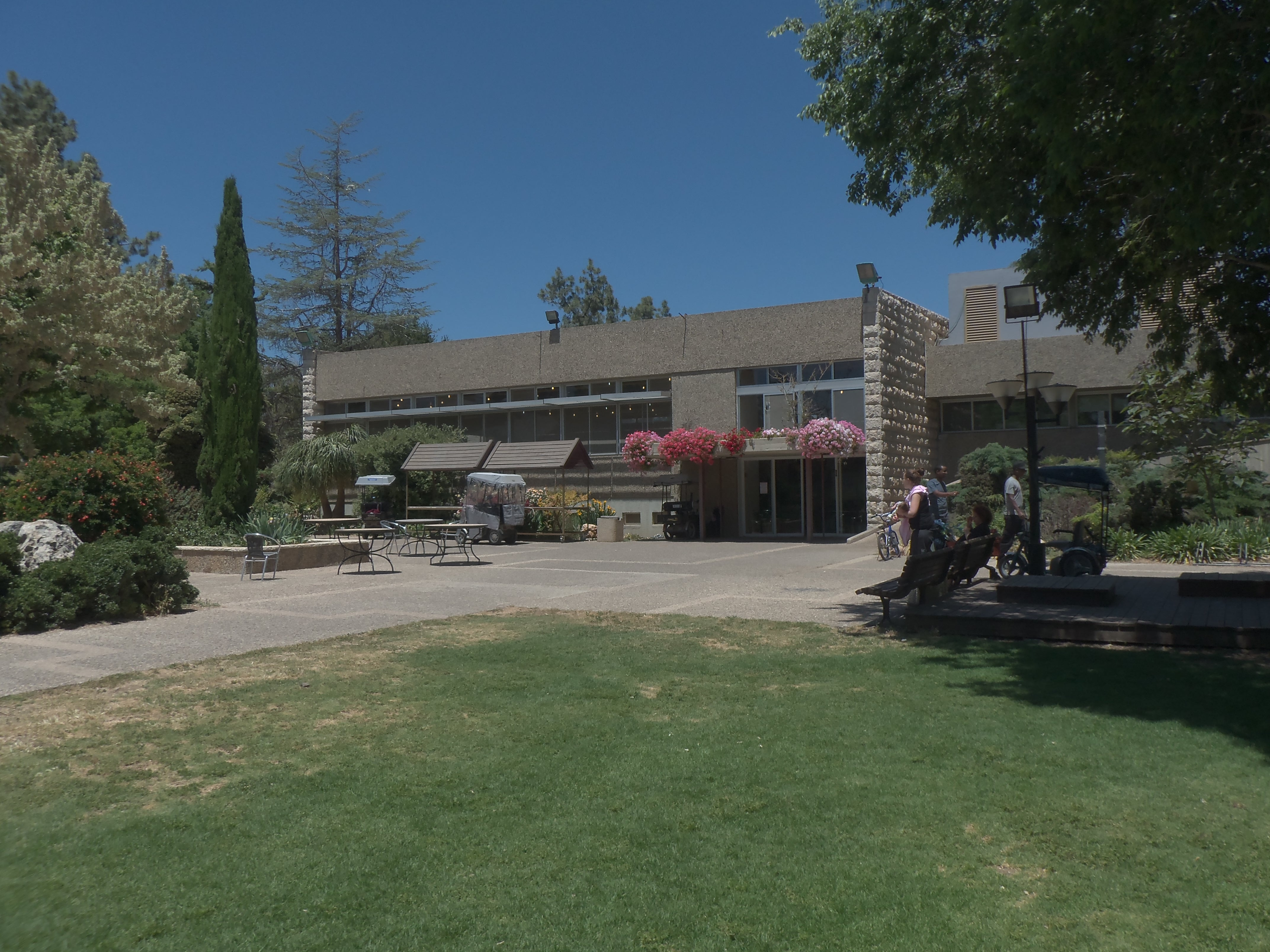 Dining hall in kibbutz Tzuba